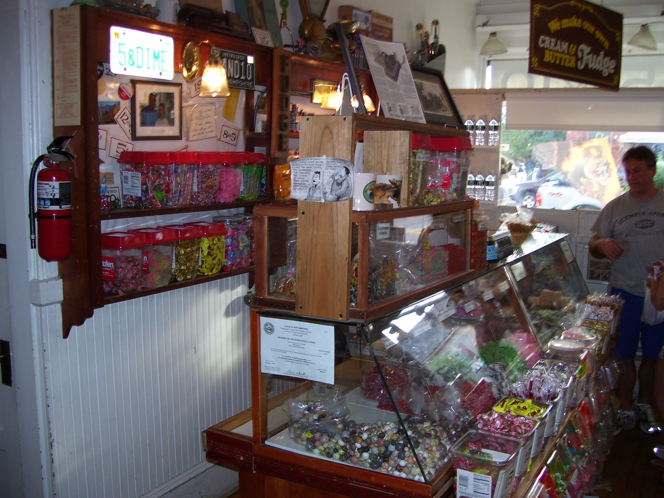 This is my 2008 photo of North Conway 5 and 10.